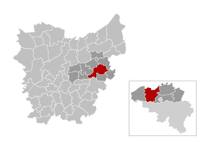 Dendermonde location